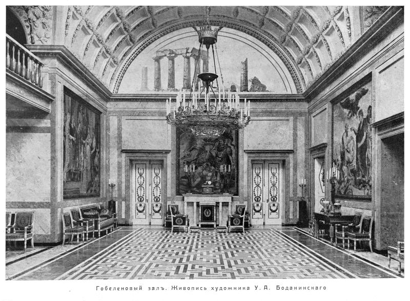 The Hall of Tapestries at the Polovtsev Dacha in St. Petersburg